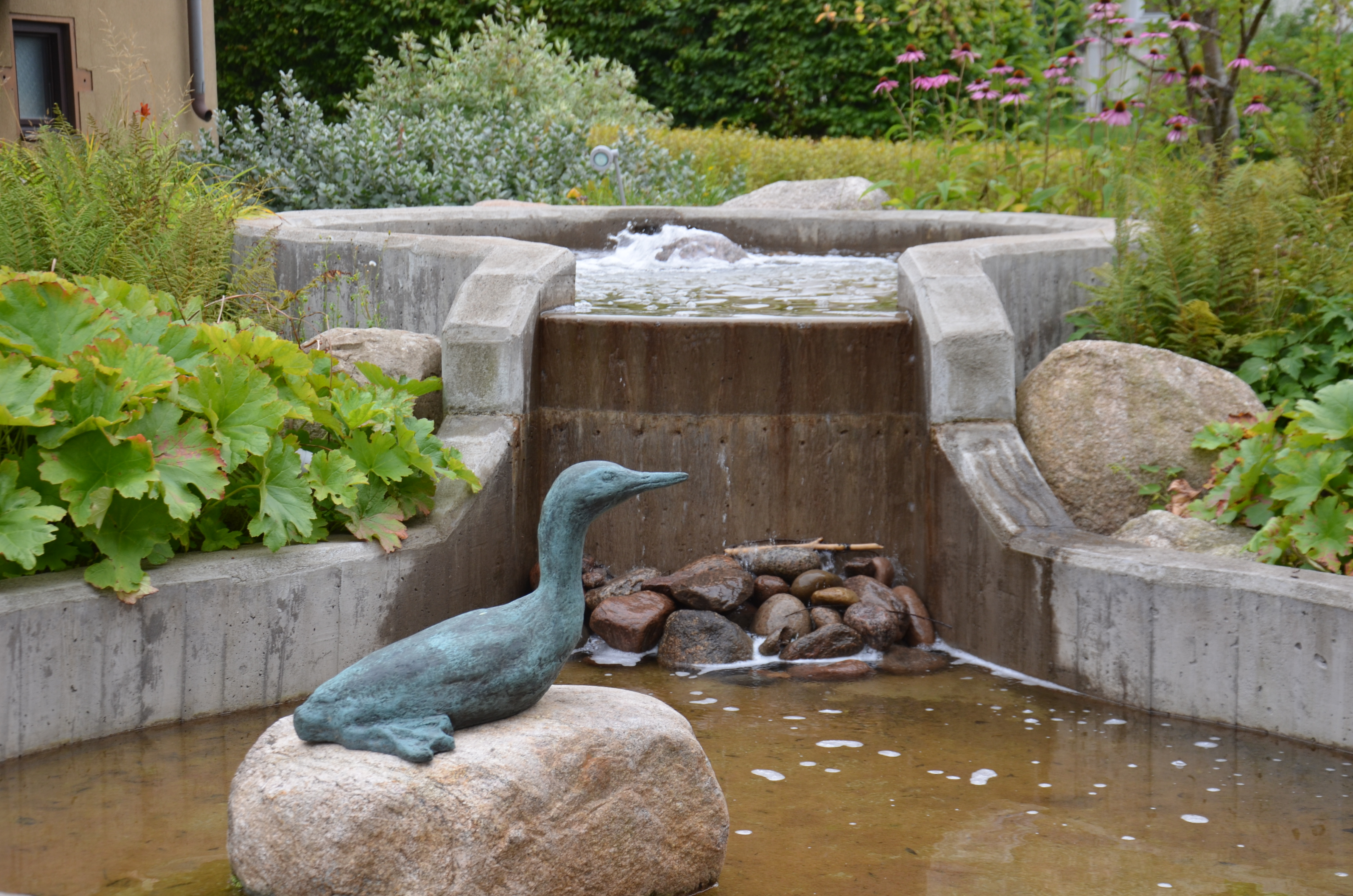 Lom av Torsten Molander i Sinnnas och Minnenas park i Hällefors FoP-Sweden]